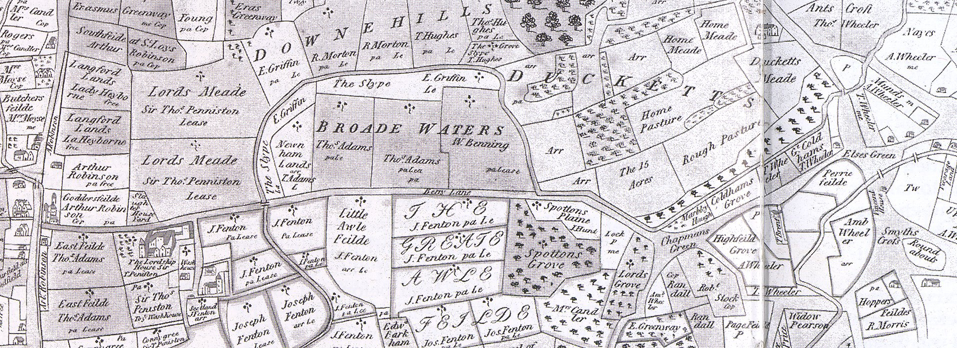 Extract from Earl of Dorset's Survey Tottenham Parish Plan 1619. Note south is at the top.